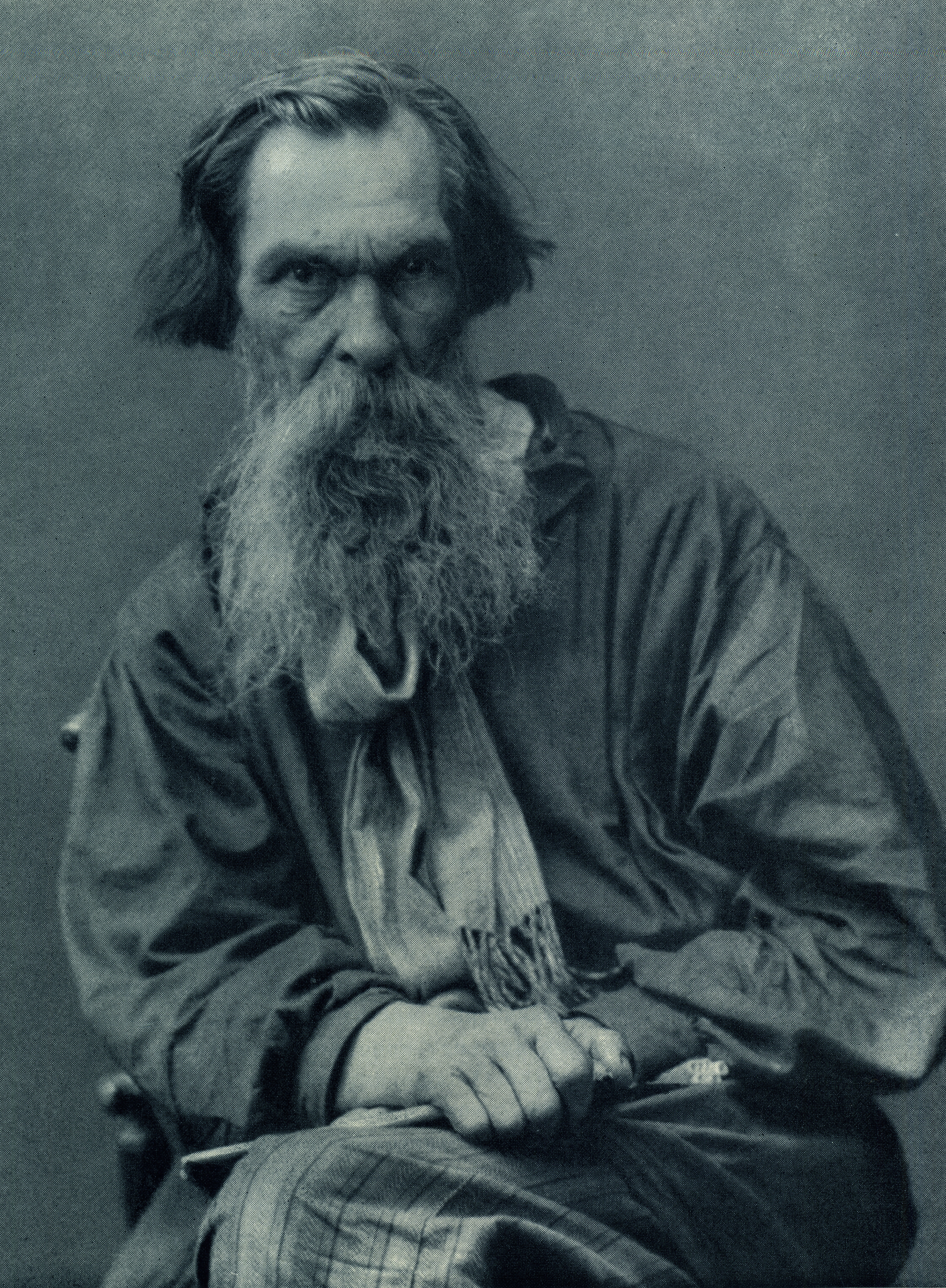 Alexey Savrasov, 1890-s